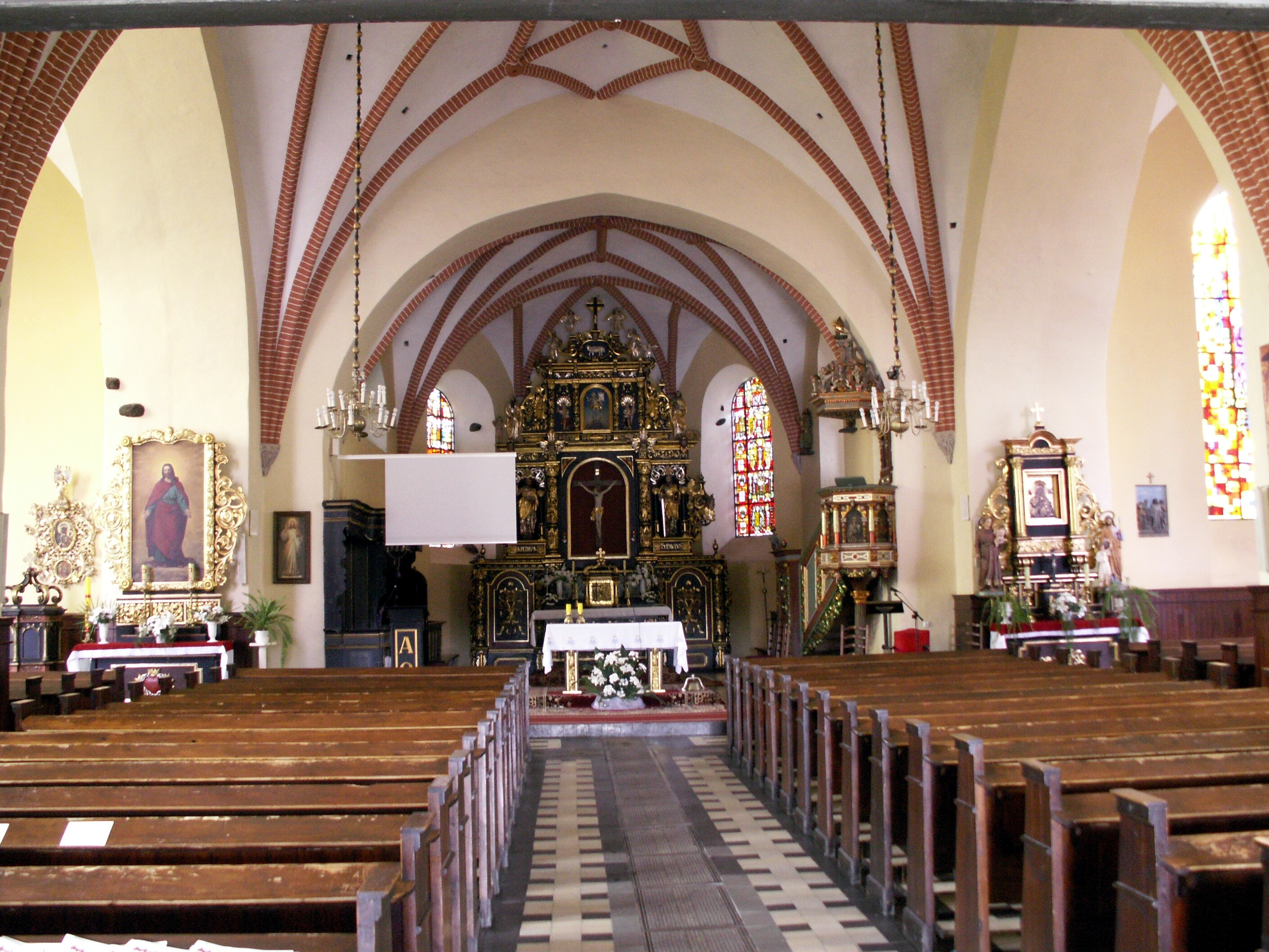 Węgorzewo